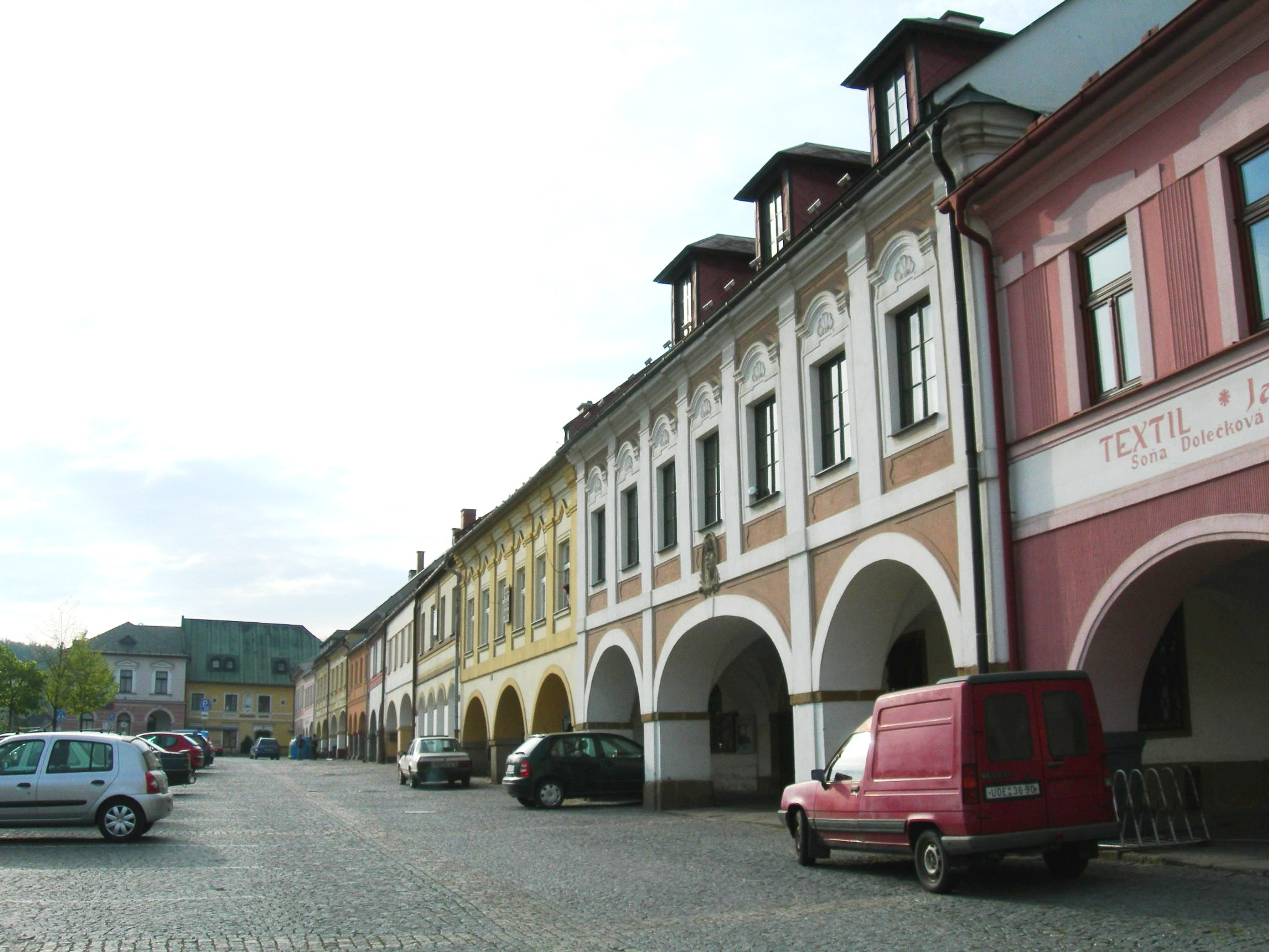 Letohrad (CZ), houses on the market